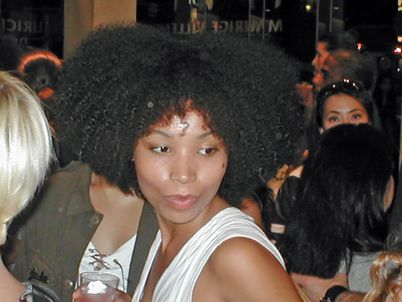 Afro by David Shankbone, New York City